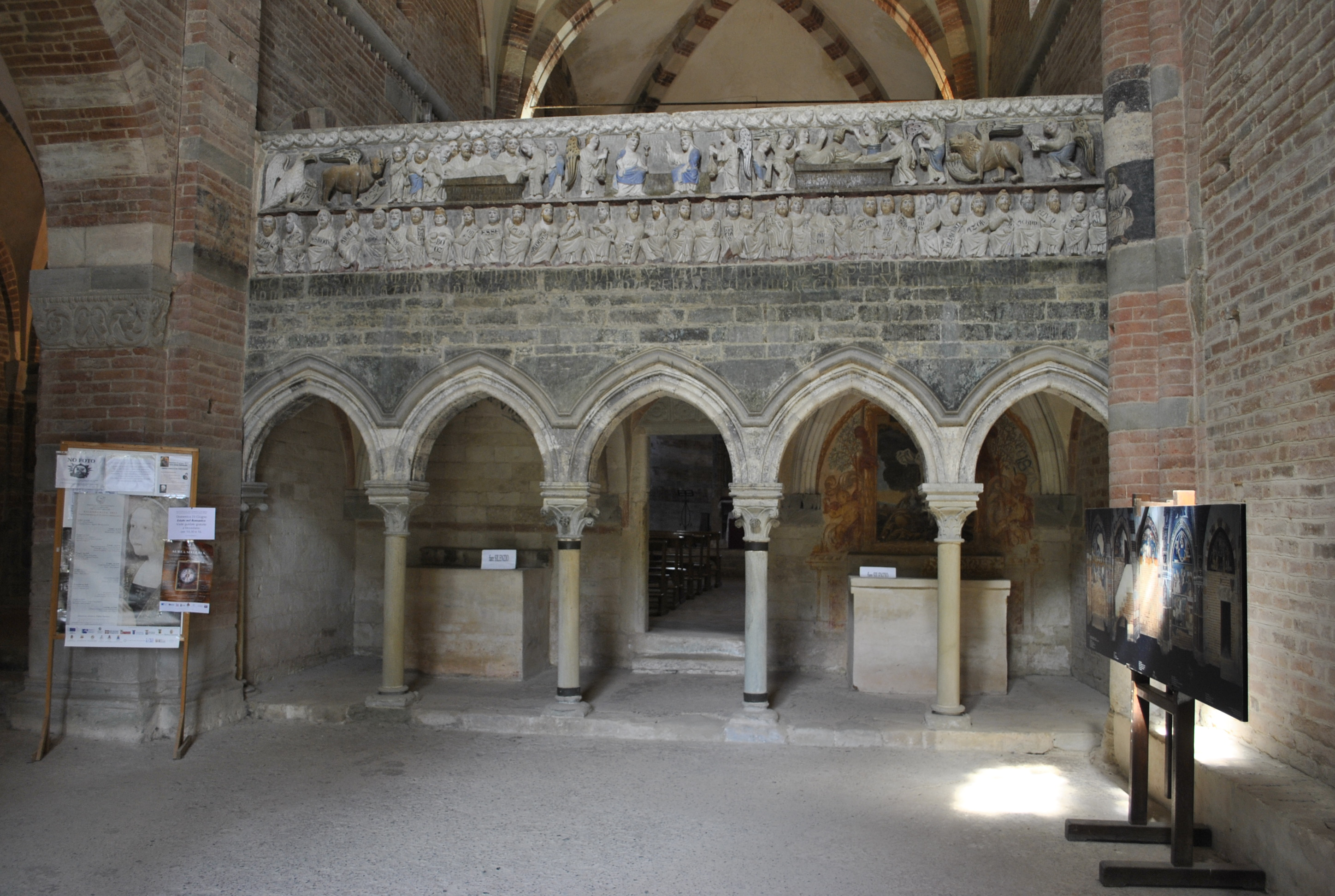 Jubè Vezzolano Abbey